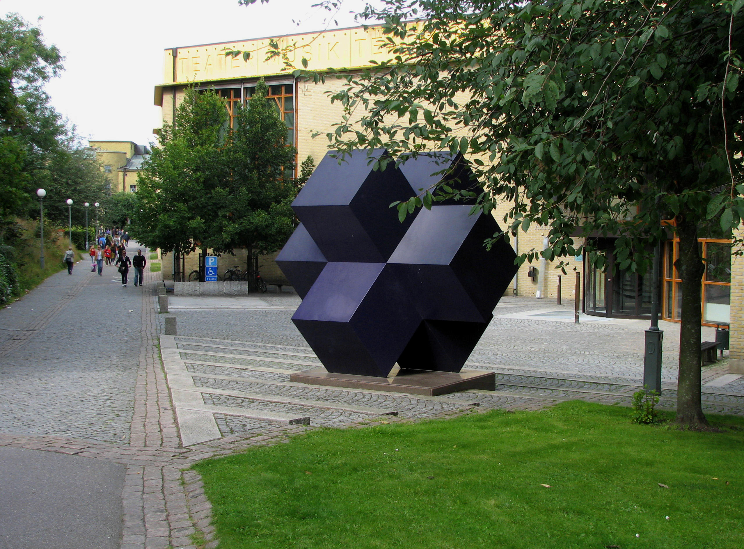 The sculpture Incantatio by Roland Borén, placed outside Artisten - the building of the Academy of Music and Drama, University of Gothenburg.